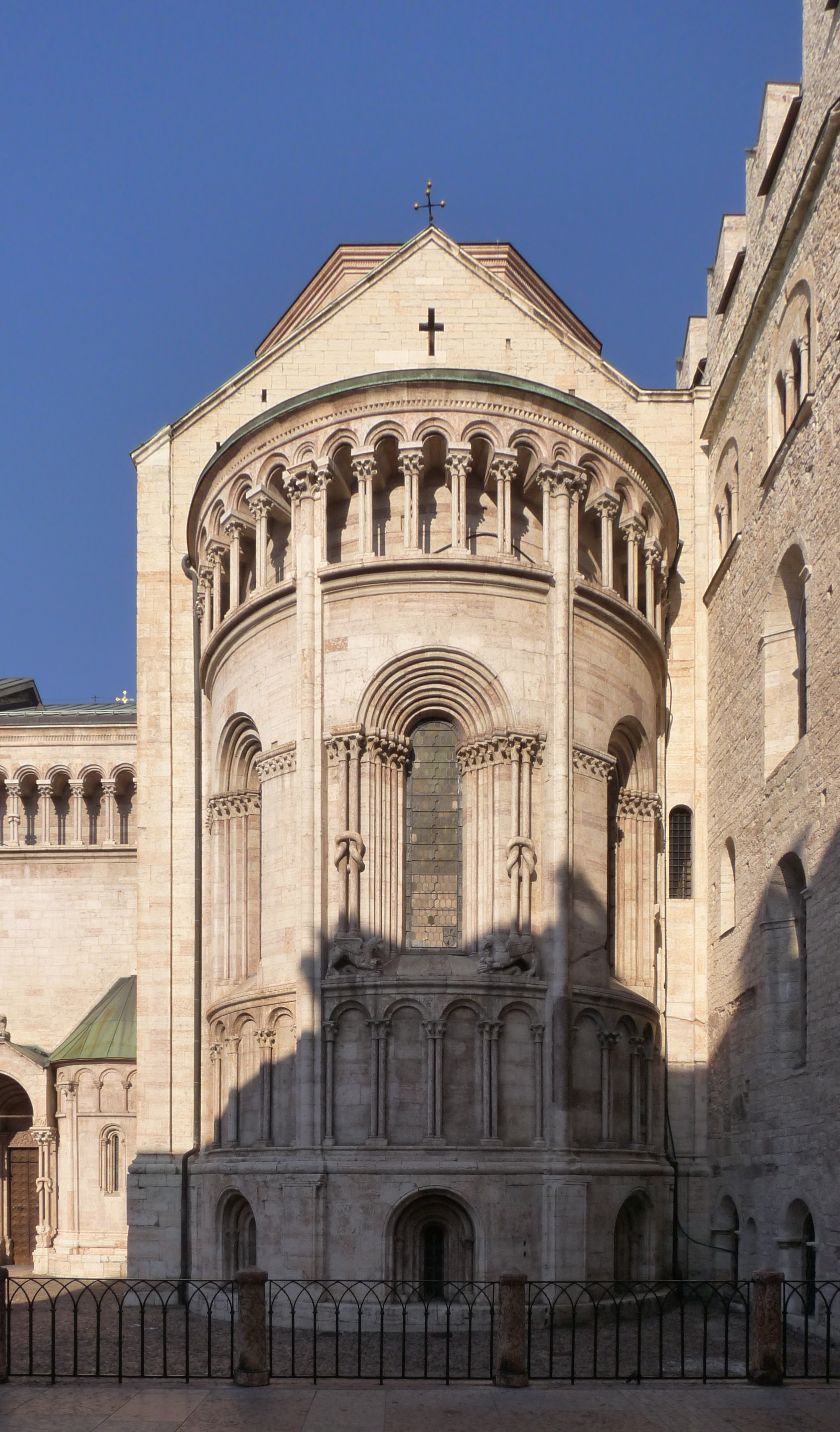 Trento (Italy): eastern apse of cathedral of Saint Vigilius